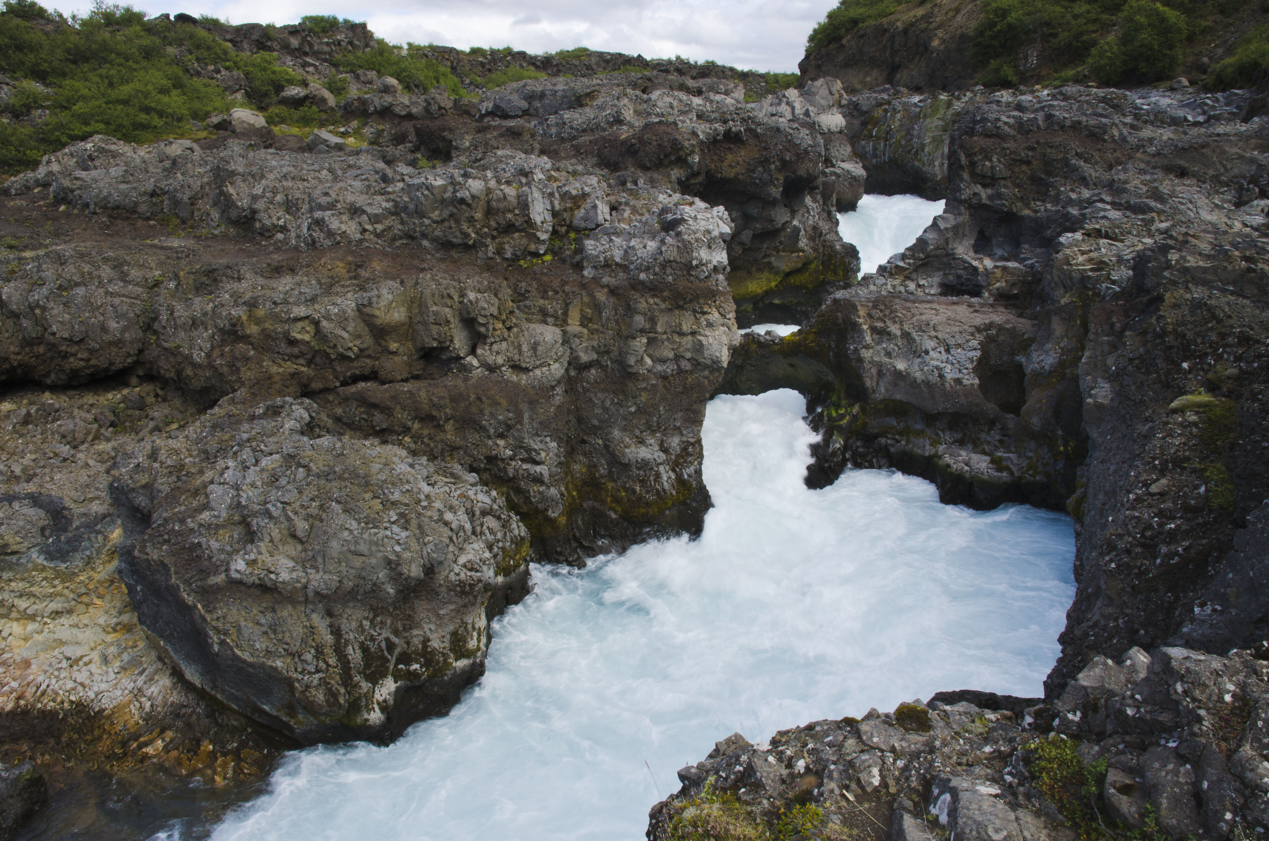 Barnafoss, Iceland